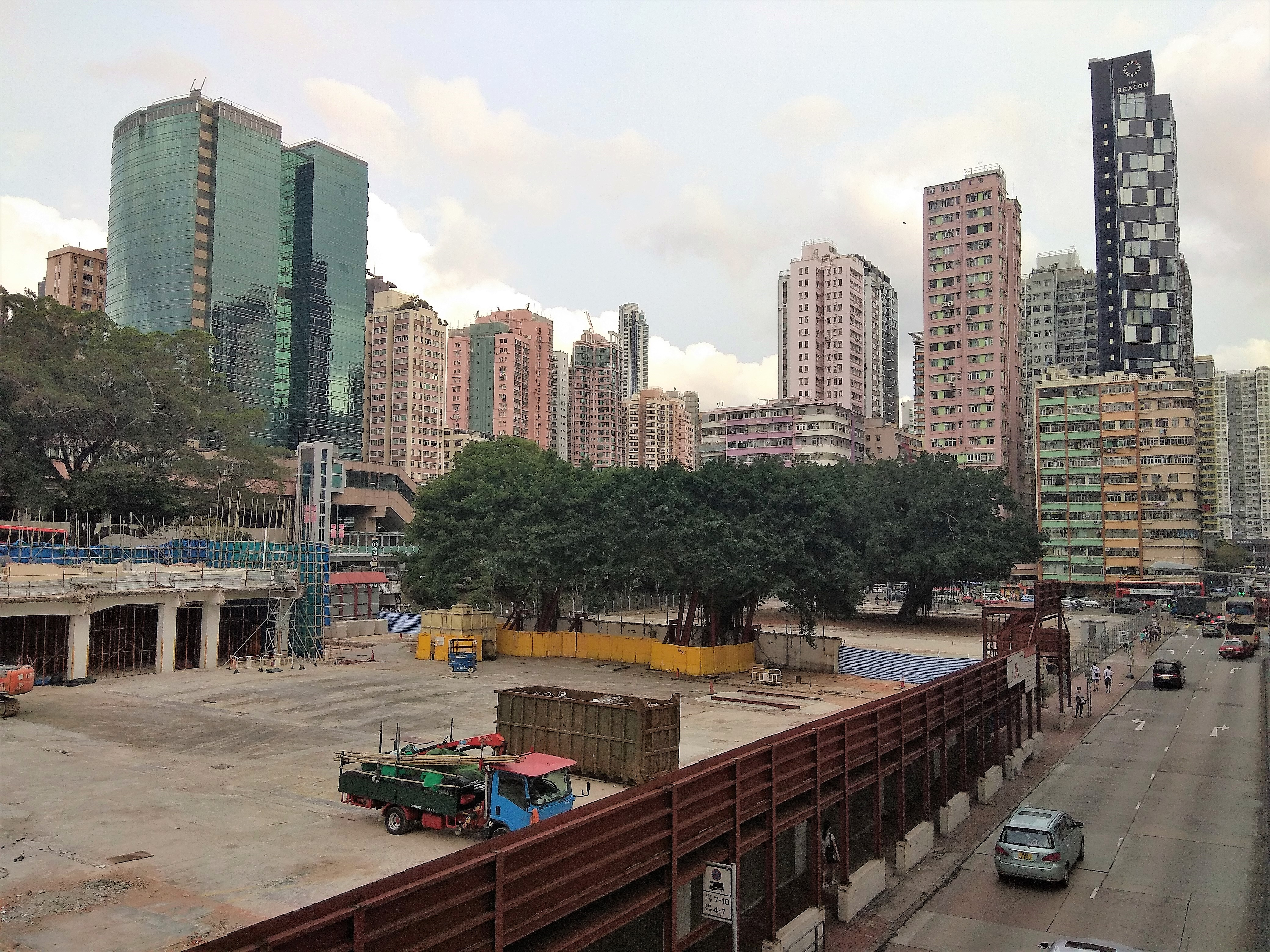 Construction site at the former location of Argyle Street Waterworks Depot and FEHD Sai Yee Street Environmental Hygiene Offices-cum-vehicle Depot.